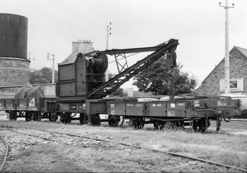 Réseau Breton - Wagon grue avec son wagon plat d´accompagnement au dépôt - CARHAIX (29)